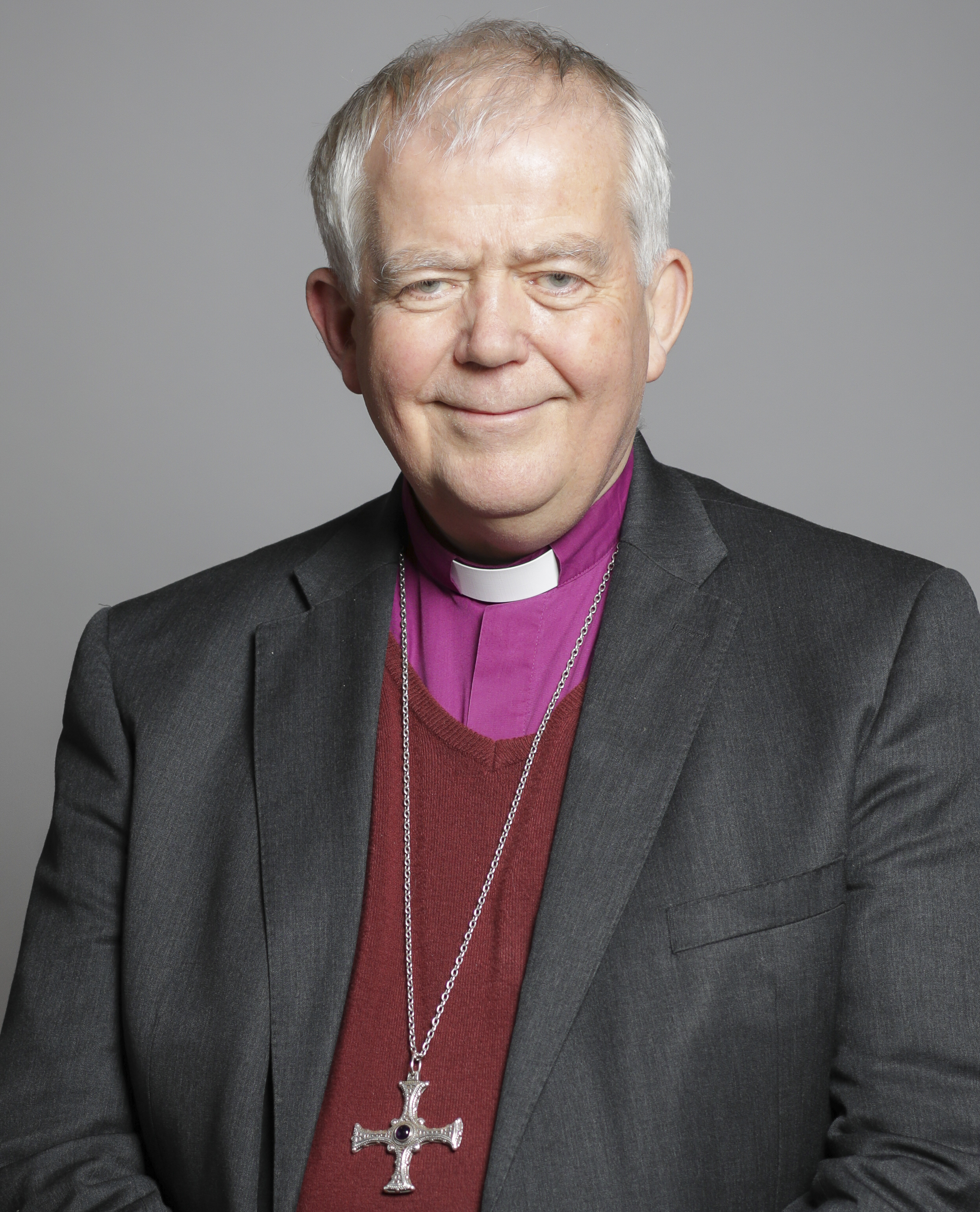 Official portrait of The Lord Bishop of Salisbury Full sized portrait of The Lord Bishop of Salisbury